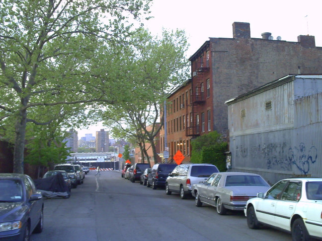 Gold St, Vinegar Hill, Brooklyn, New York City